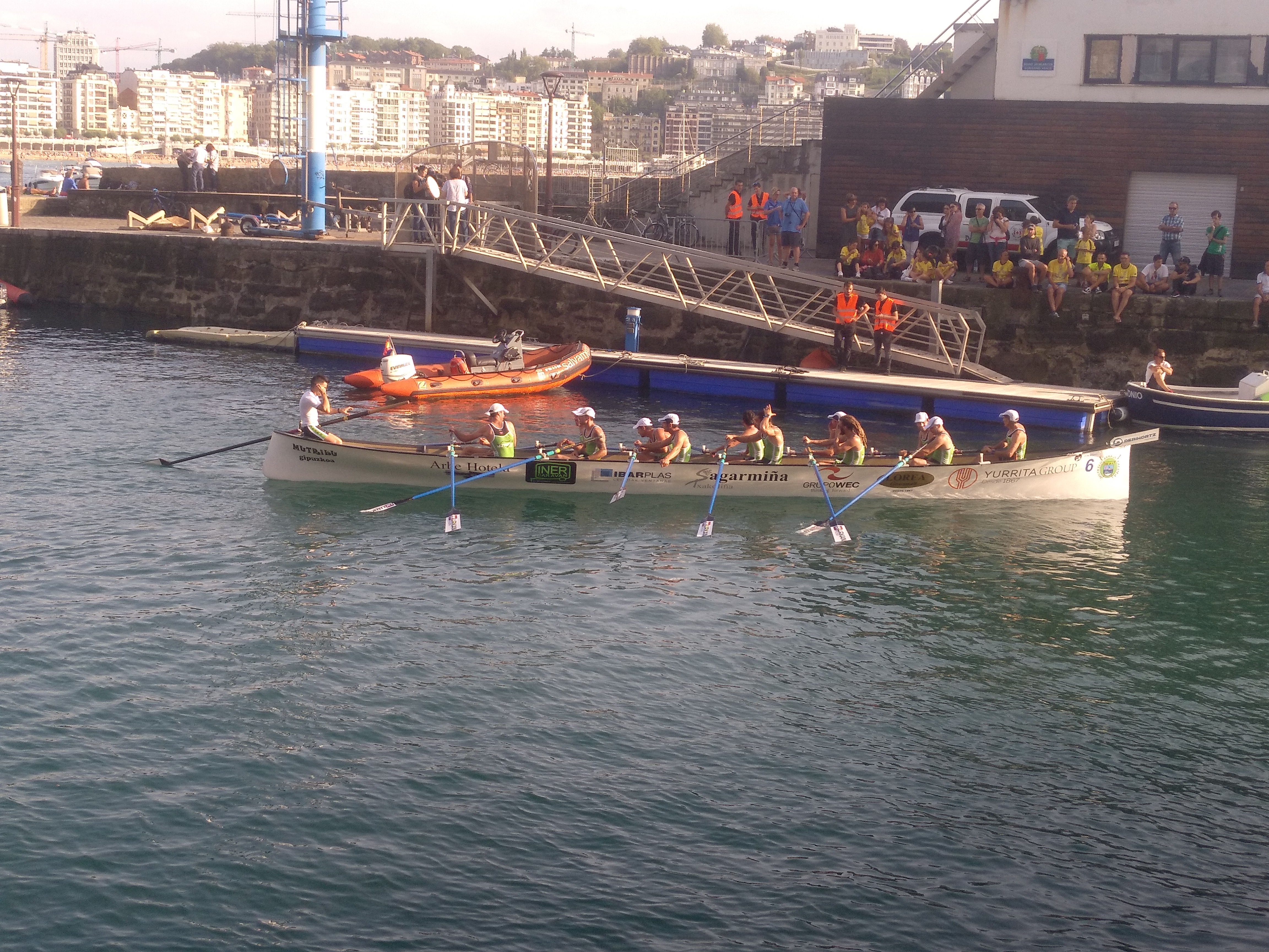 Mutriku Arraun Taldea, Flag of La Concha, 2018